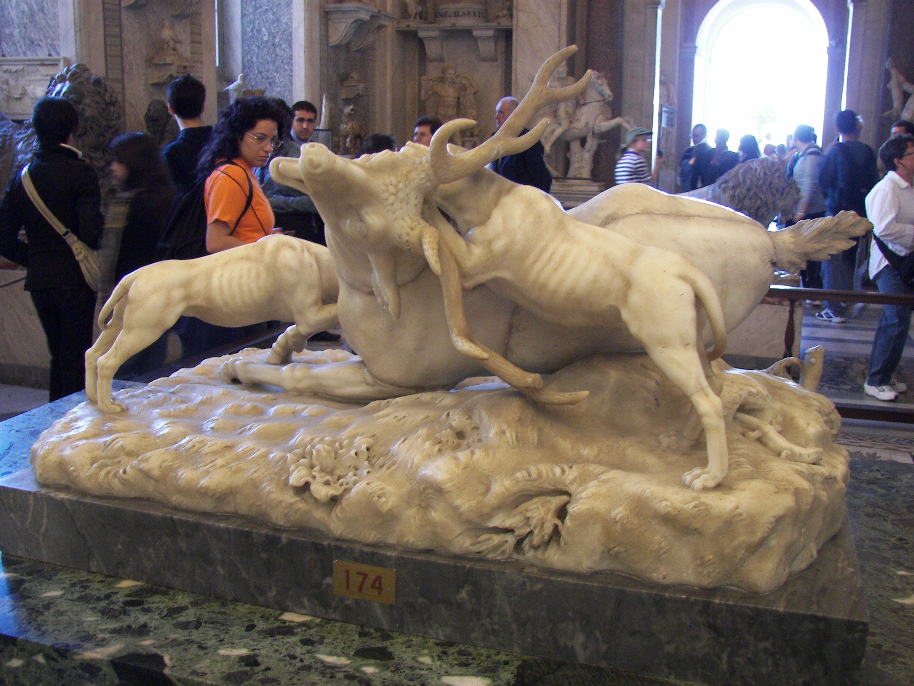 Statue in the Vatican Museums (sala degli Animali) of a deer being attacked.